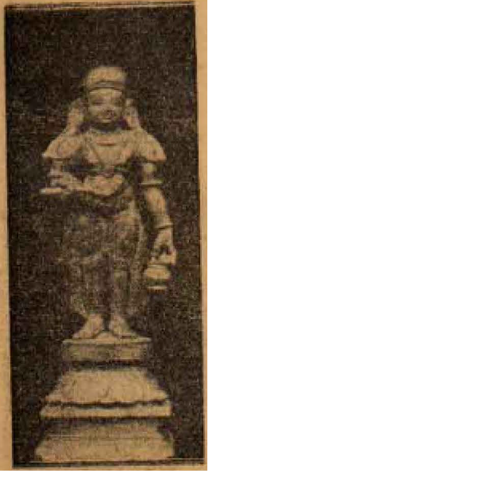 కడమలనంబి